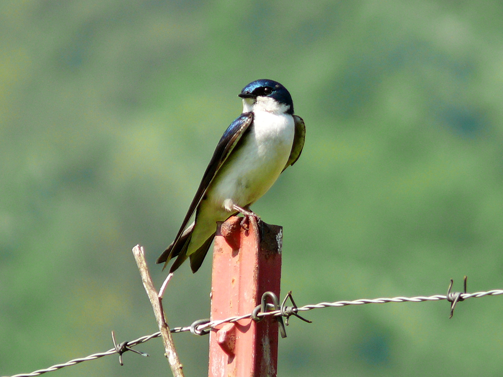 A male Tree Swallow (Tachycineta bicolor) on a fence post. Photo taken with a Panasonic Lumix DMC-FZ50 near the village of Valle Crucis in Watauga County, NC, USA.